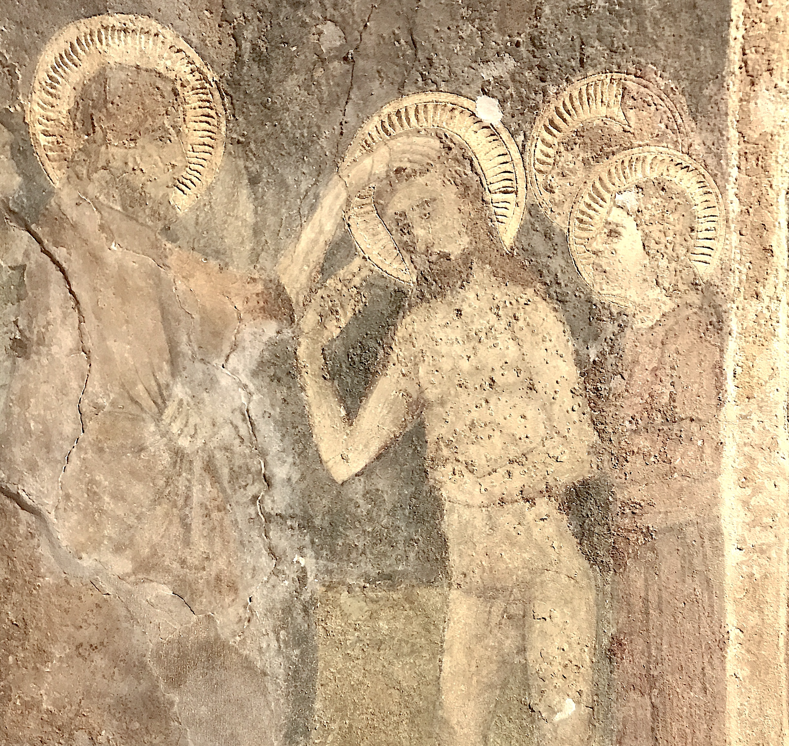 Particular Baptism of Jesus - Ex Cappella of the SS. Annunziata of Jelsi